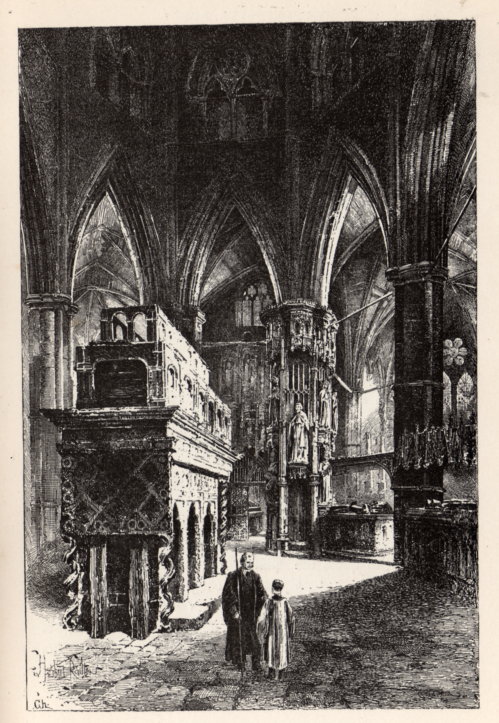 Illustration by Herbert Railton (1857-1910), from A Brief Account of Westminster Abbey (1894) by WJ Loftie